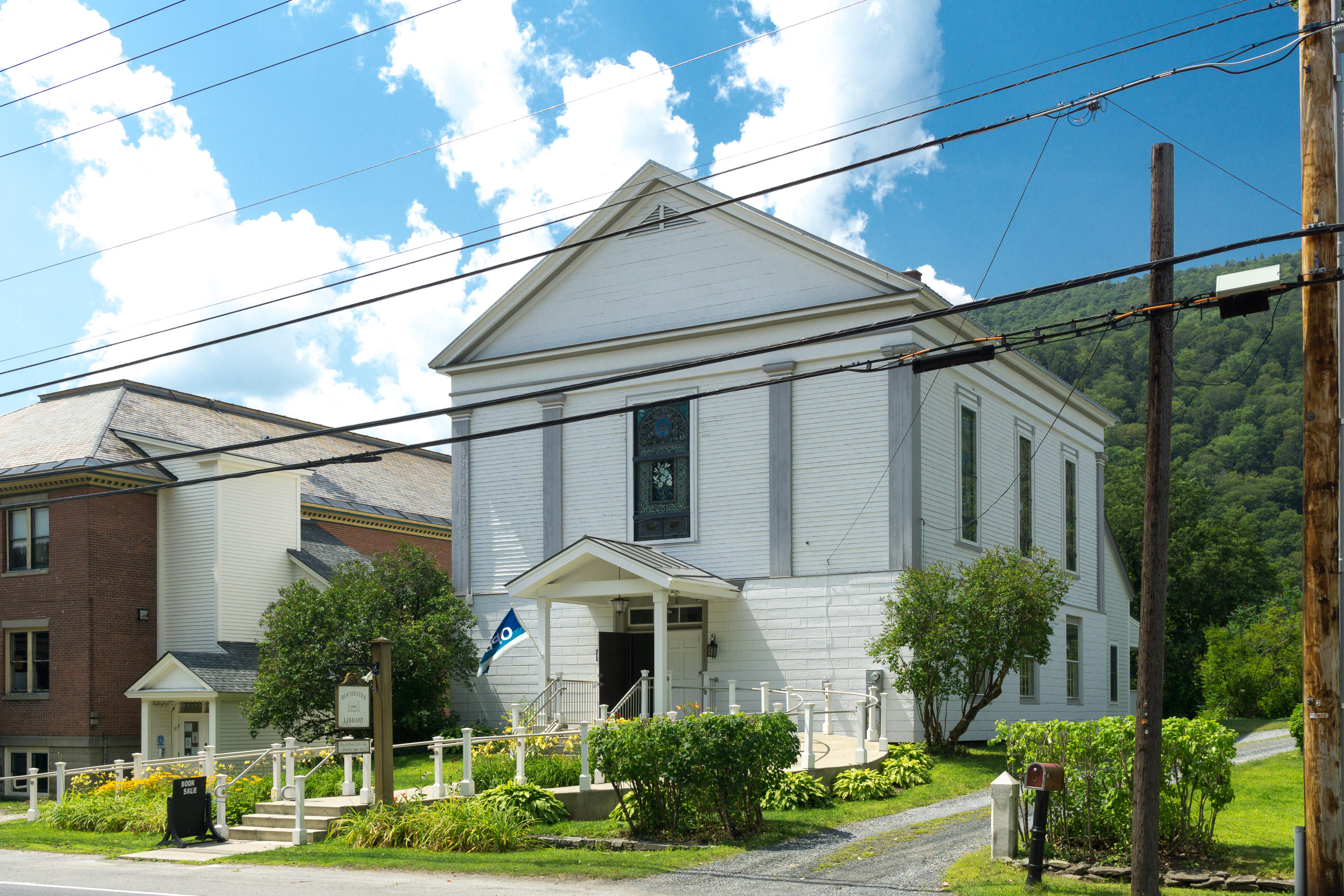 Public library, Rochester, Vermont